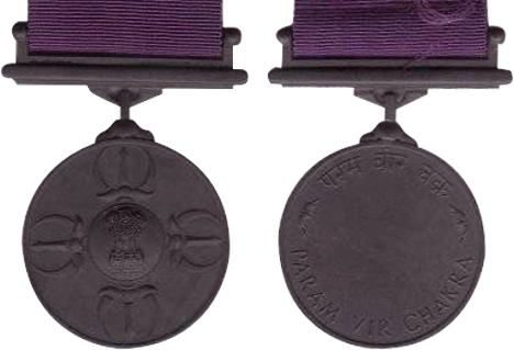 Param-vir-chakra-medal